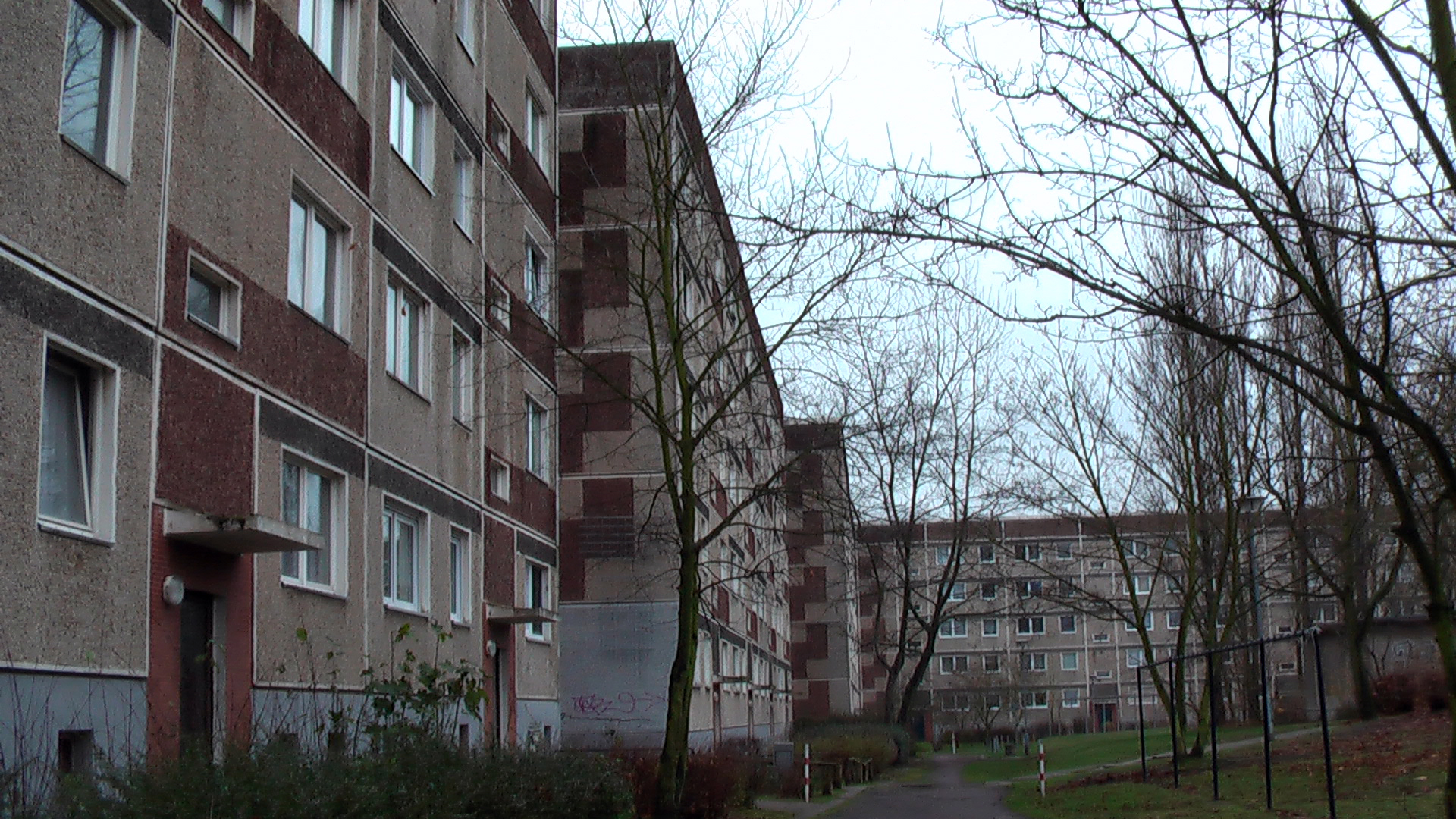 typical yard in Hohenstücken